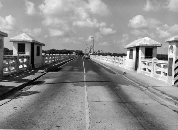 View of Trout River Bridge - Duval County, Florida